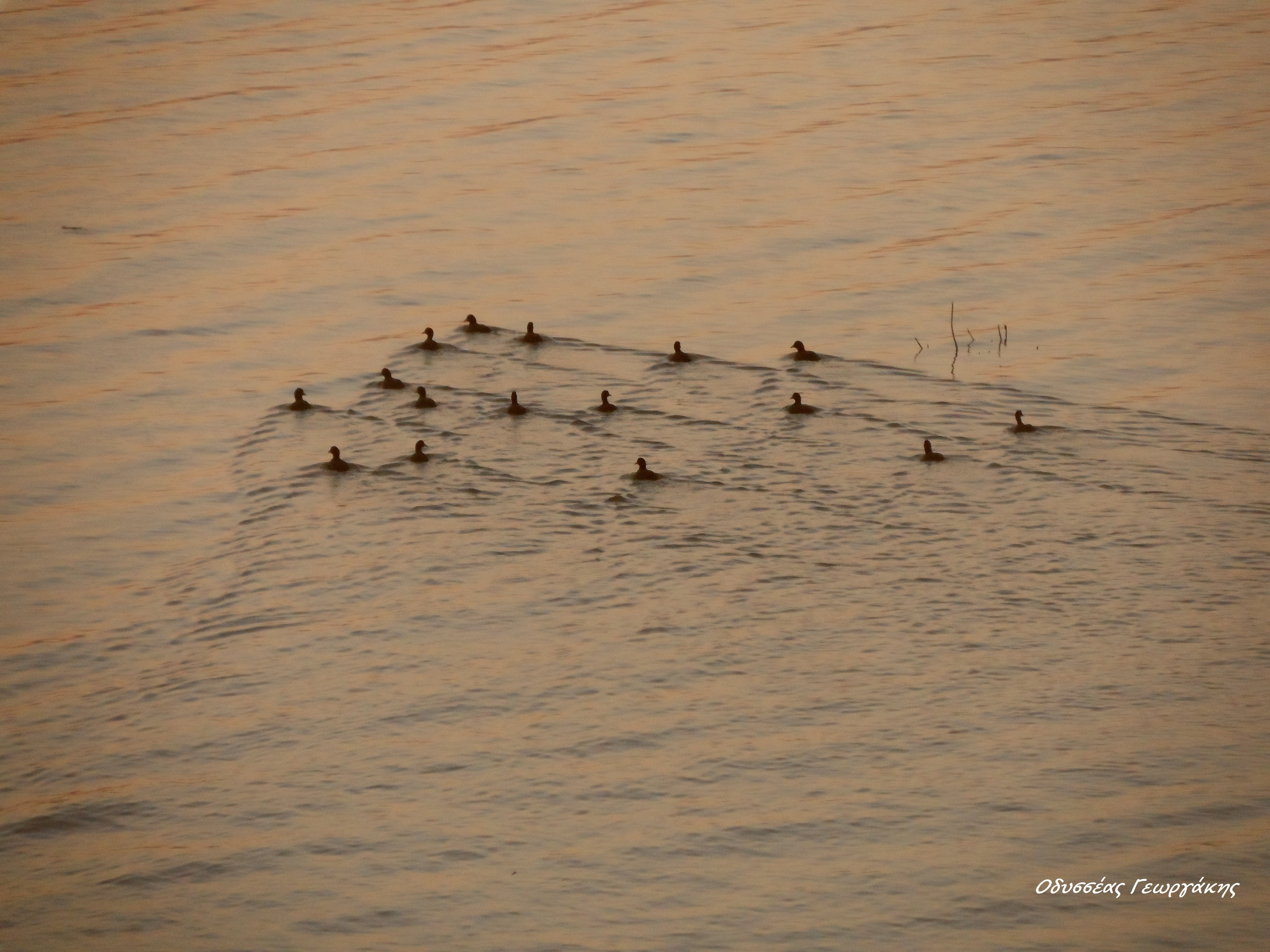 This is a photography of Natura 2000 protected area with ID GR1420004